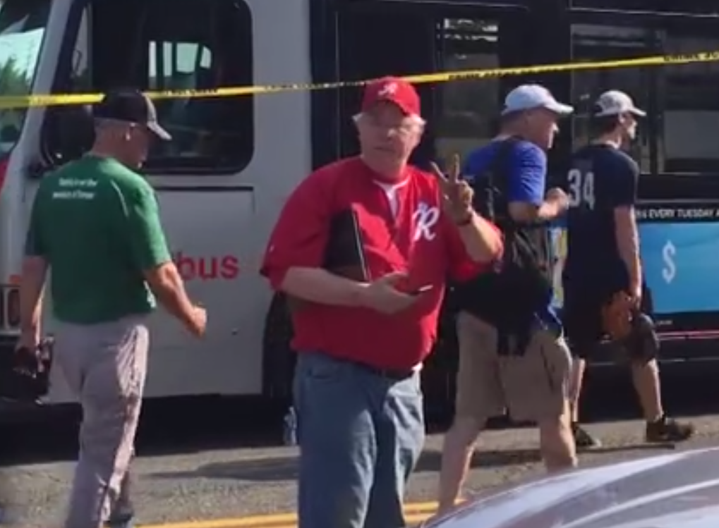 Rep. Joe Barton in the aftermath of the shooting in Alexandria, Virginia on June 14, 2017.